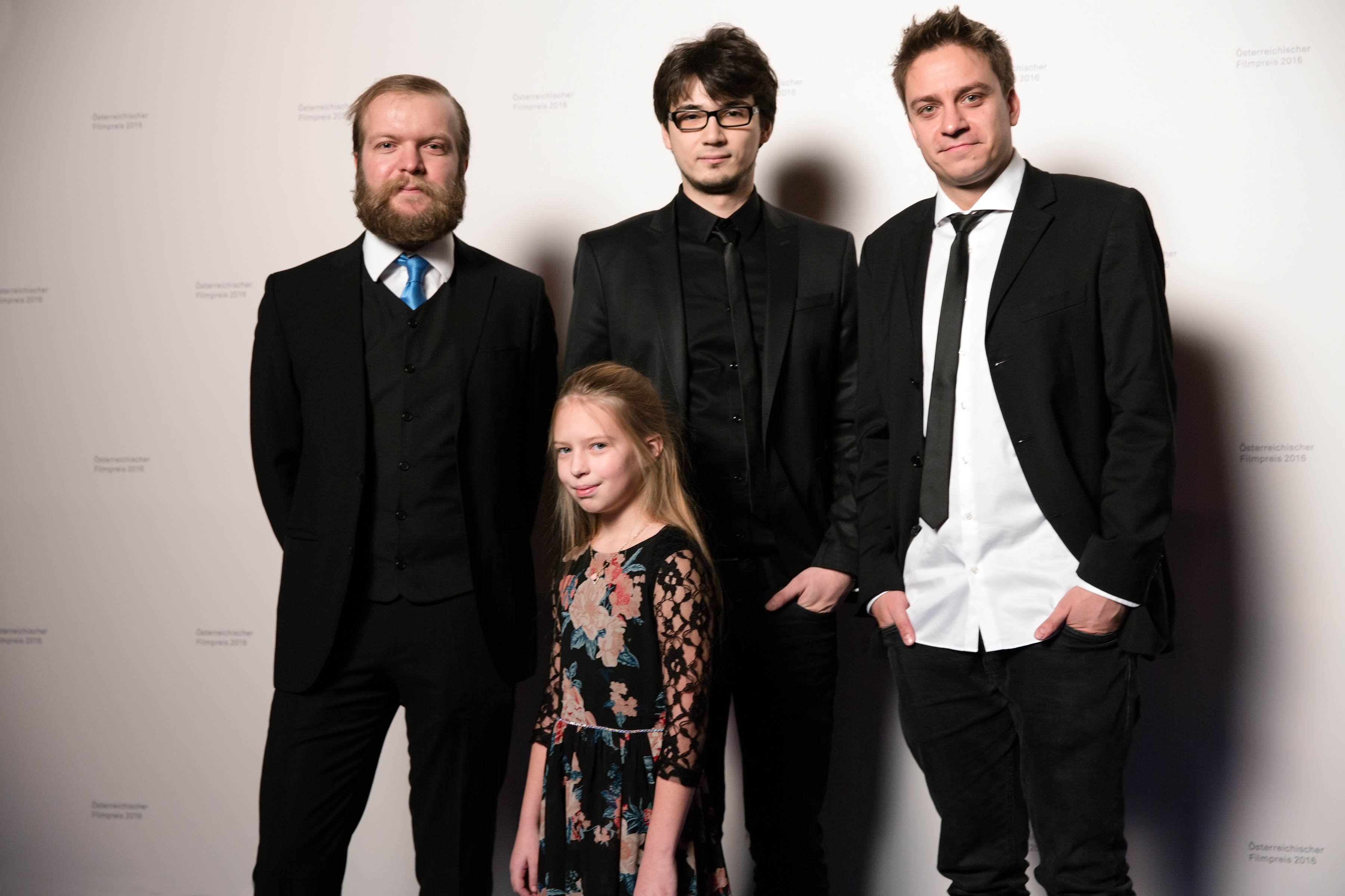 Julia Pointner (actress), Patrick Vollrath (director), Sebastian Thaler (camera) and Hans-Peter Krenn (set manager) - best short film: Everything Will Be Okay) - Austrian Film Awards 2016 (Grafenegg, Austria).